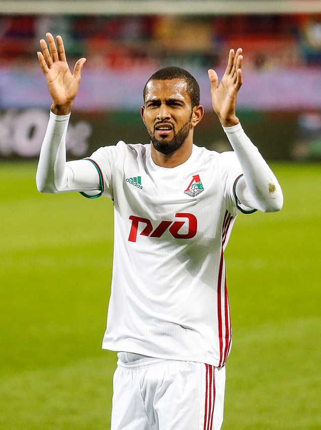 Maicon Marques with FC Lokomotiv Moscow after a game against PFC CSKA Moscow.